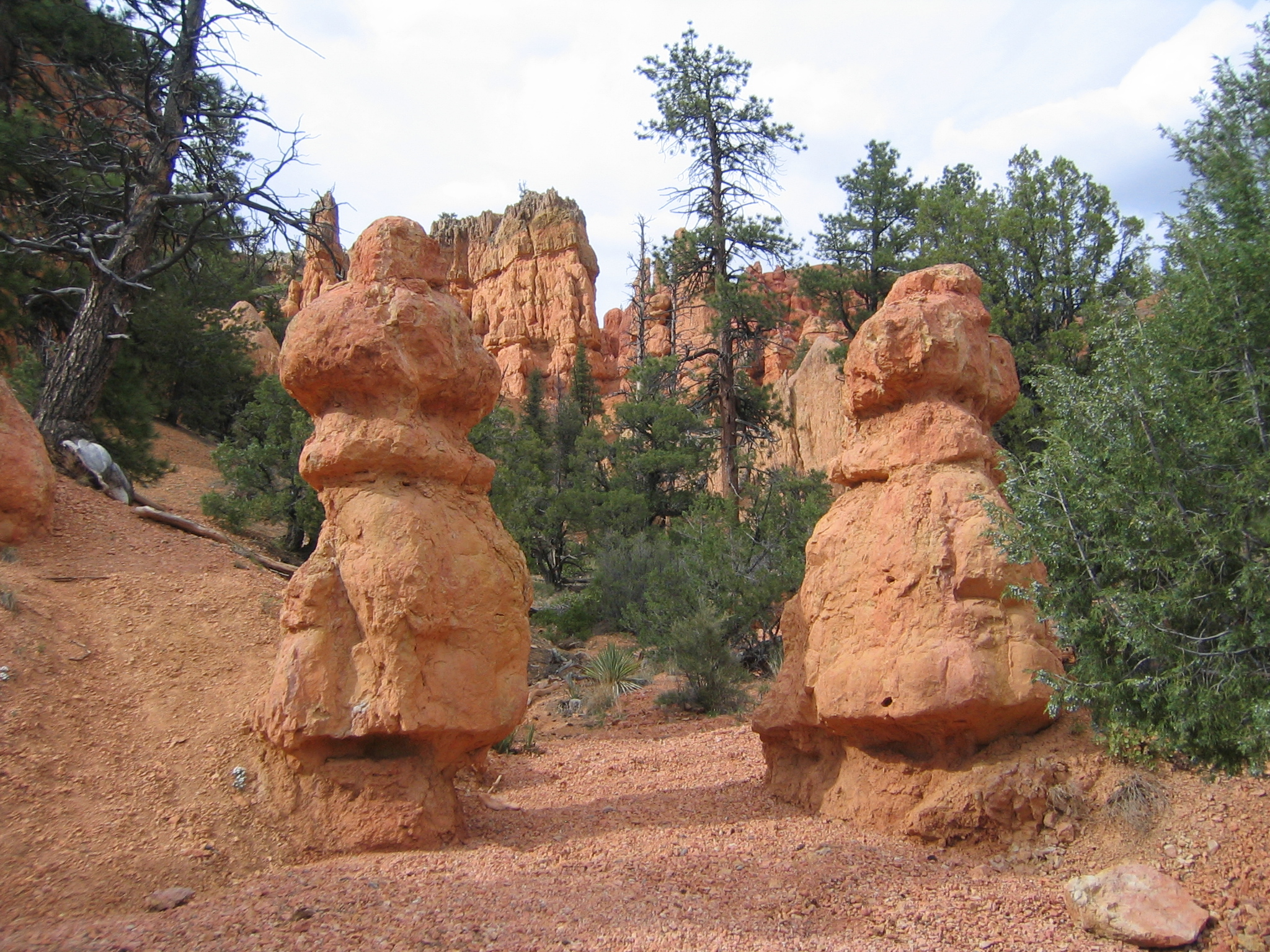 own work